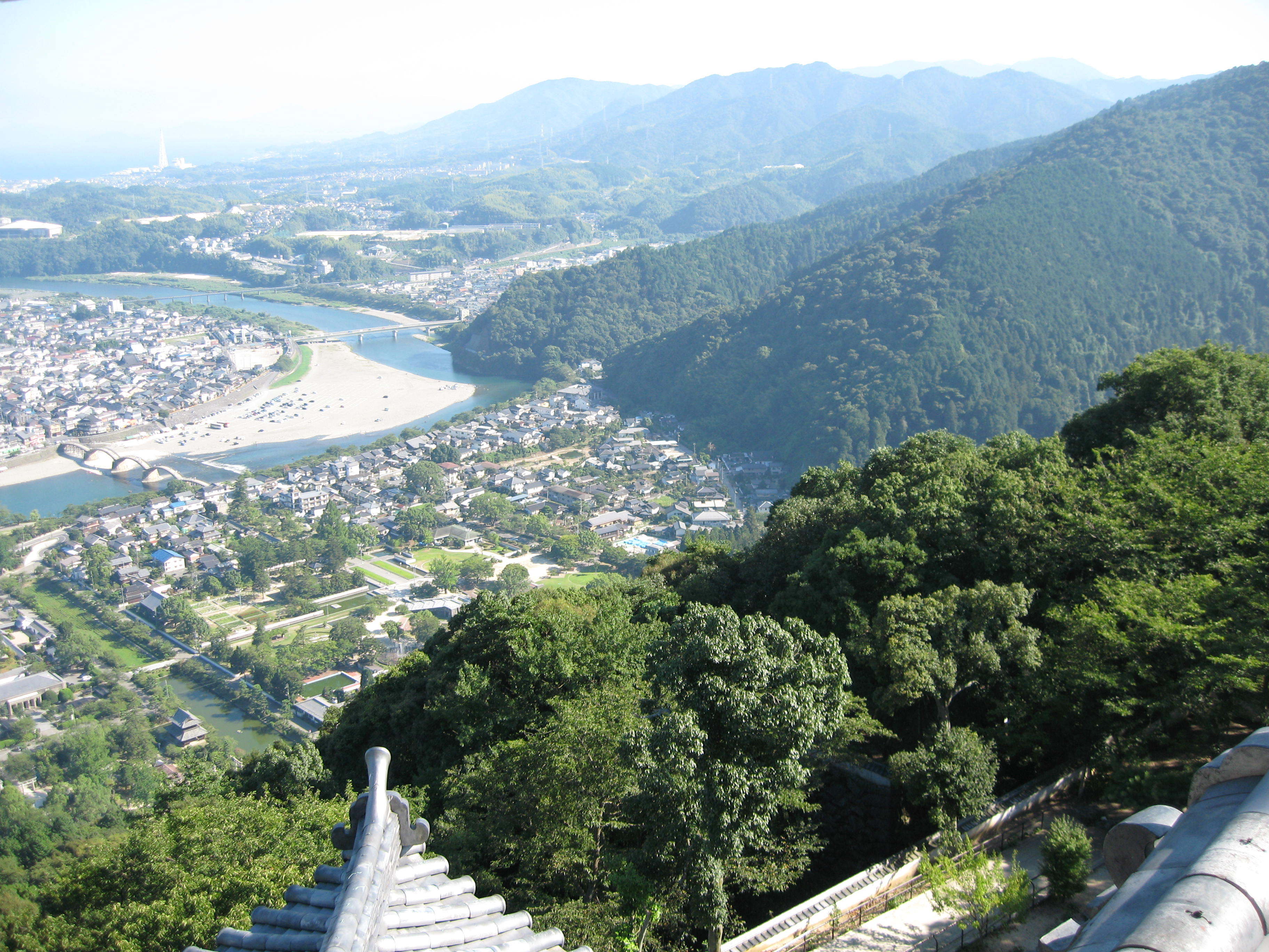 Kintai bridge ភាសាខ្មែរ: ស្ពានឃីងតៃ